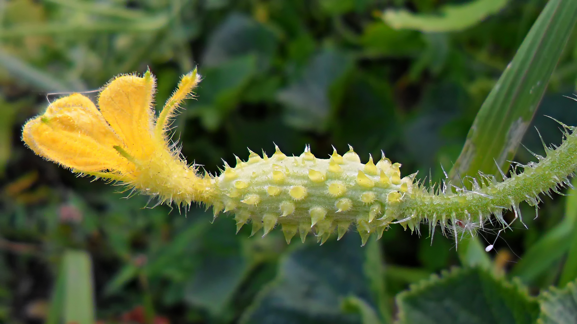 A female flower of a kiwano vine.